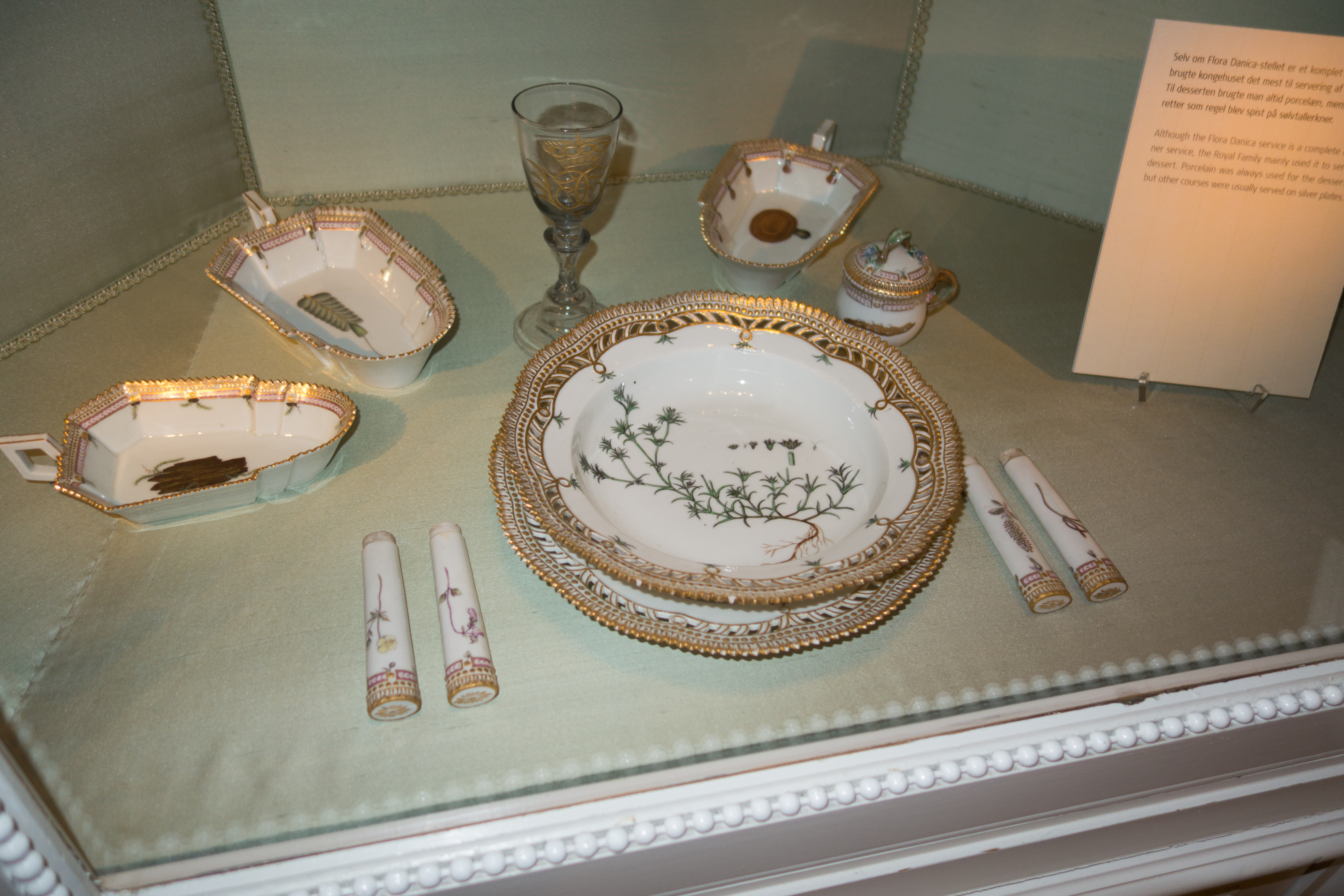 Flora Danica setting at Christiansborg Palace in Copenhagen, Denmark